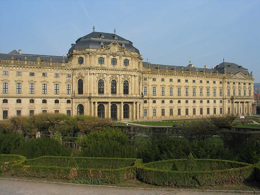 Wurzburg Residenze garden front